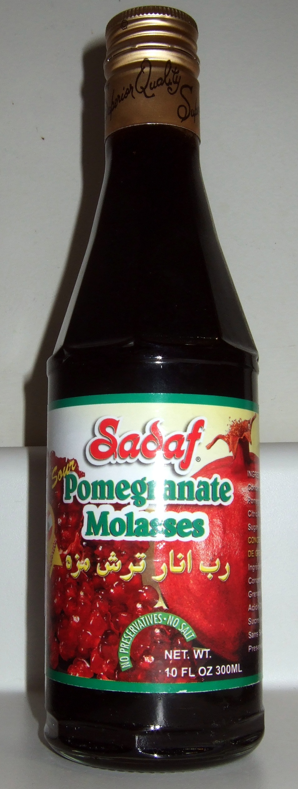 Pomegranate paste